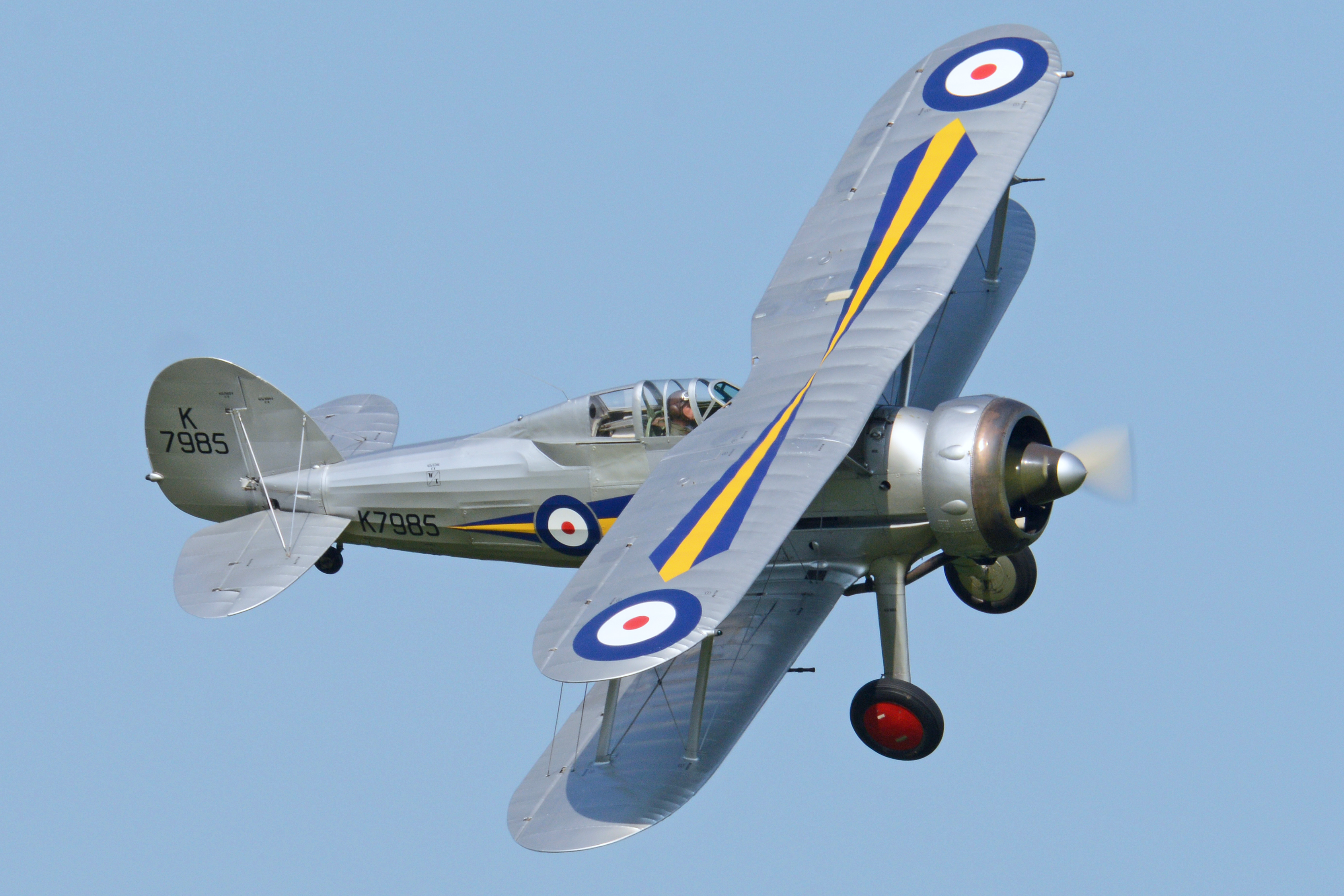 Owned and operated by the Shuttleworth Collection. Actually ‘L8032’, but wears the markings of the 73sqn aeroplane flown by WW2 Ace Edgar ‘Cobber’ Kain, during the 1938 Empire Air Day. Seen displaying at the ‘Fly Navy’ airshow. Old Warden, Bedfordshire, UK. 5th June 2016